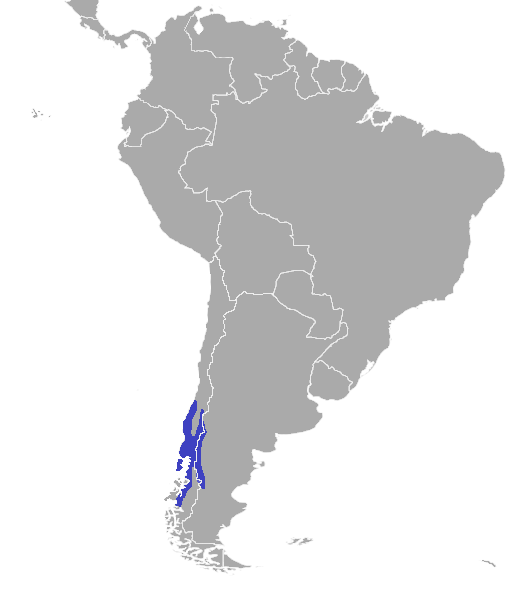 Pudu_puda_Range